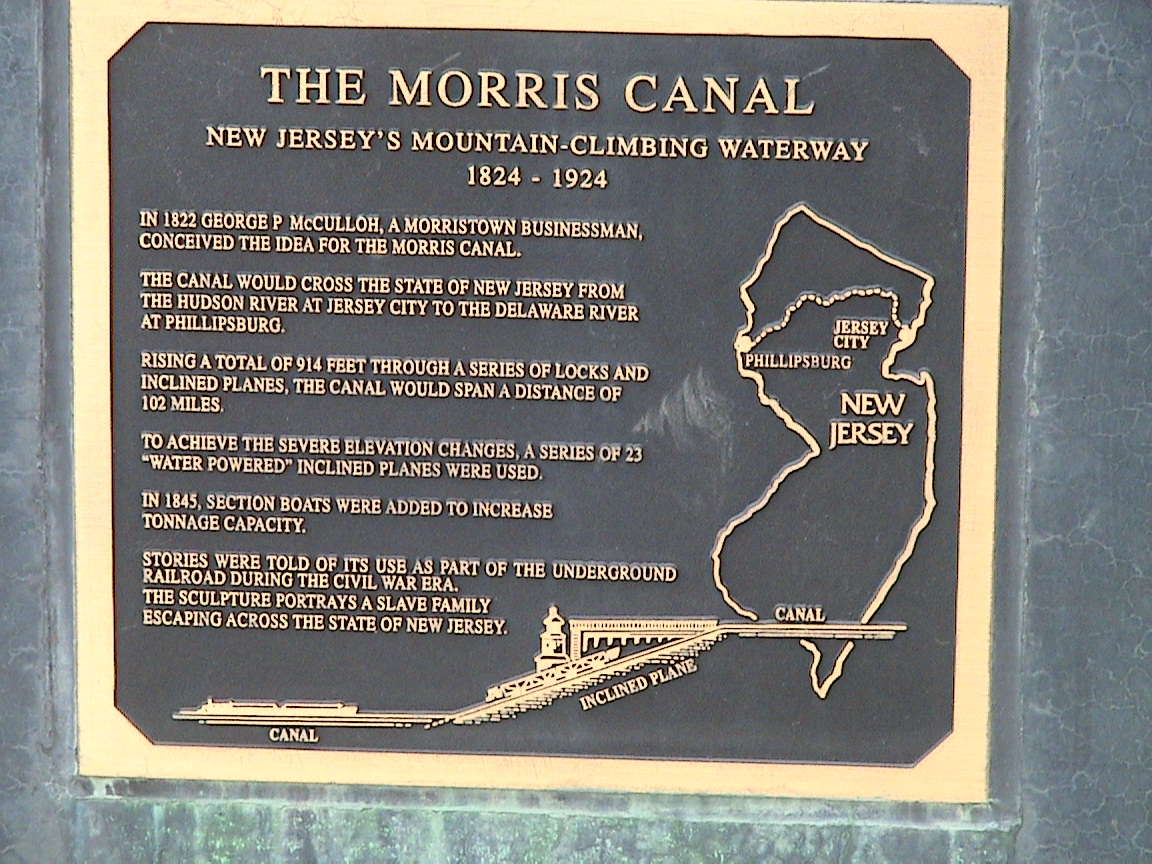 files from my last capturing adventure from Mississippi and New York, Kew Gardens and else. July 2007